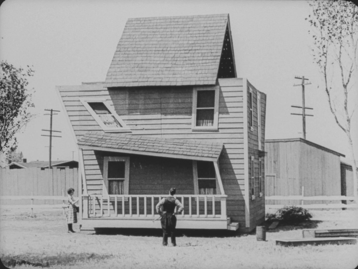 Screenshot from the 1920[1] Buster Keaton film One Week